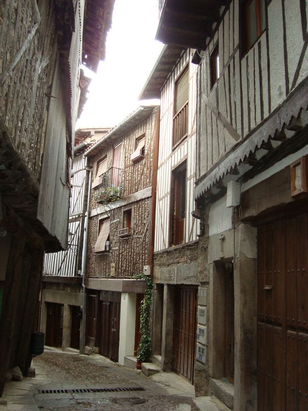 Street view of Mogarraz (Salamanca, Spain)